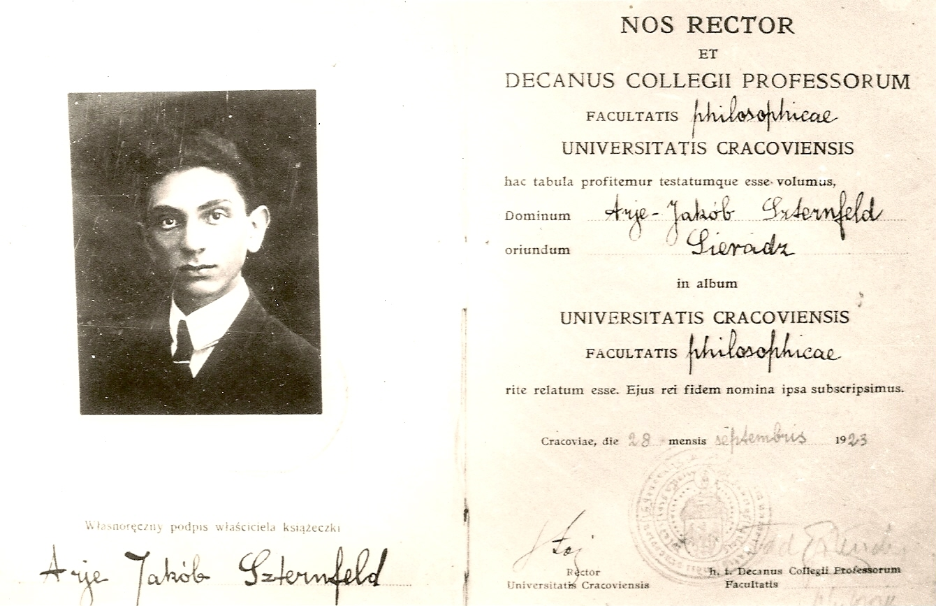 Student’s ID of A. Sternfeld. Jagiellonian University. Krakow, 1923